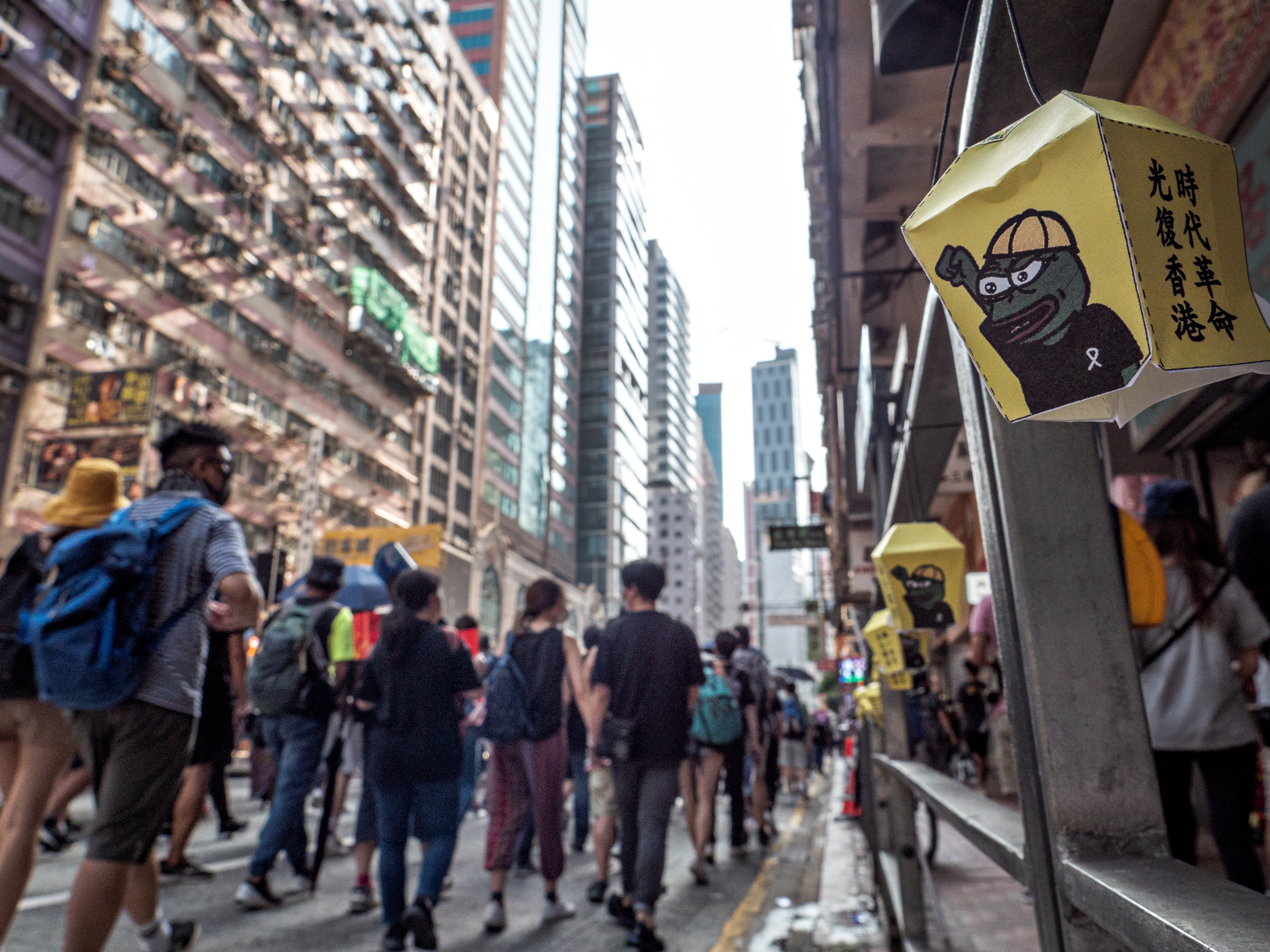 2019-09-15 Hong Kong anti-extradition bill protest